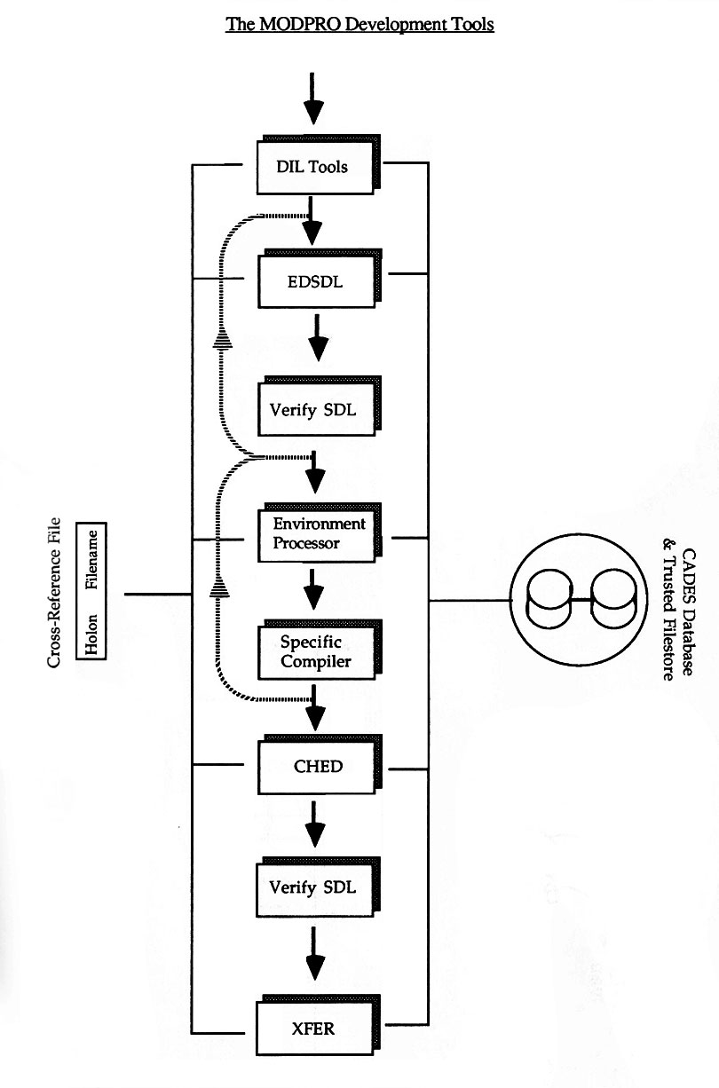 Typical development process using the tools of CADES MODPRO